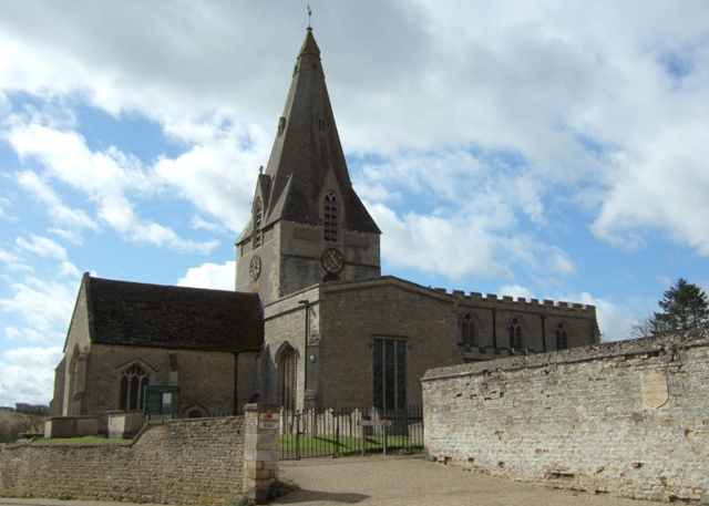 King's Cliffe church This attractive church has an unusual dedication - All Saints and St James. Presumably as James would also be one of the 'All Saints' someone clearly liked him so much they effectively named the church after him twice! The building has a peculiar somewhat squat tower with a broach spire which dates from the C12th and C13th. The church offers nice informative guides and there is clearly an active local history group called King's Cliffe Heritage.